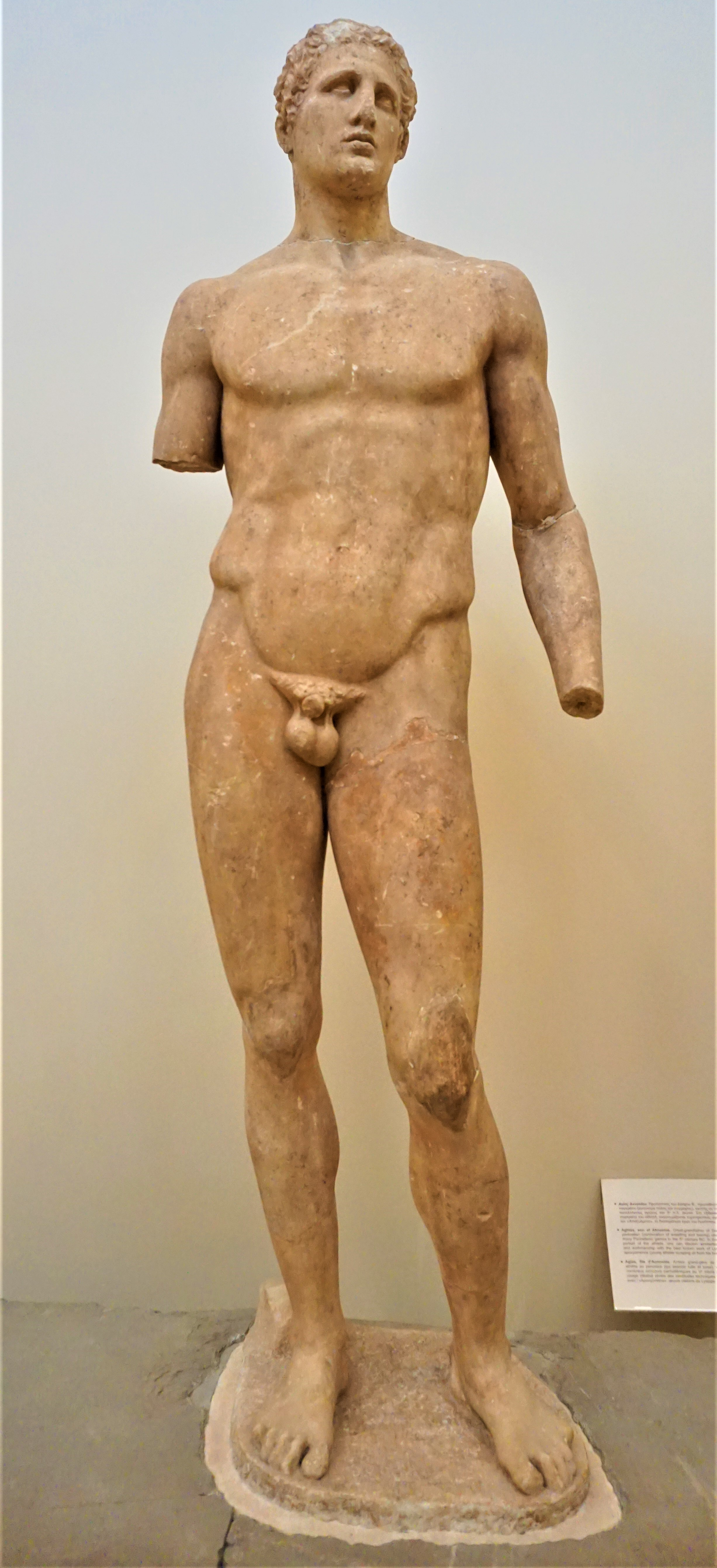 Statue of Agias of Pharsala - Delphi Archaeological Museum by Joy of Museums